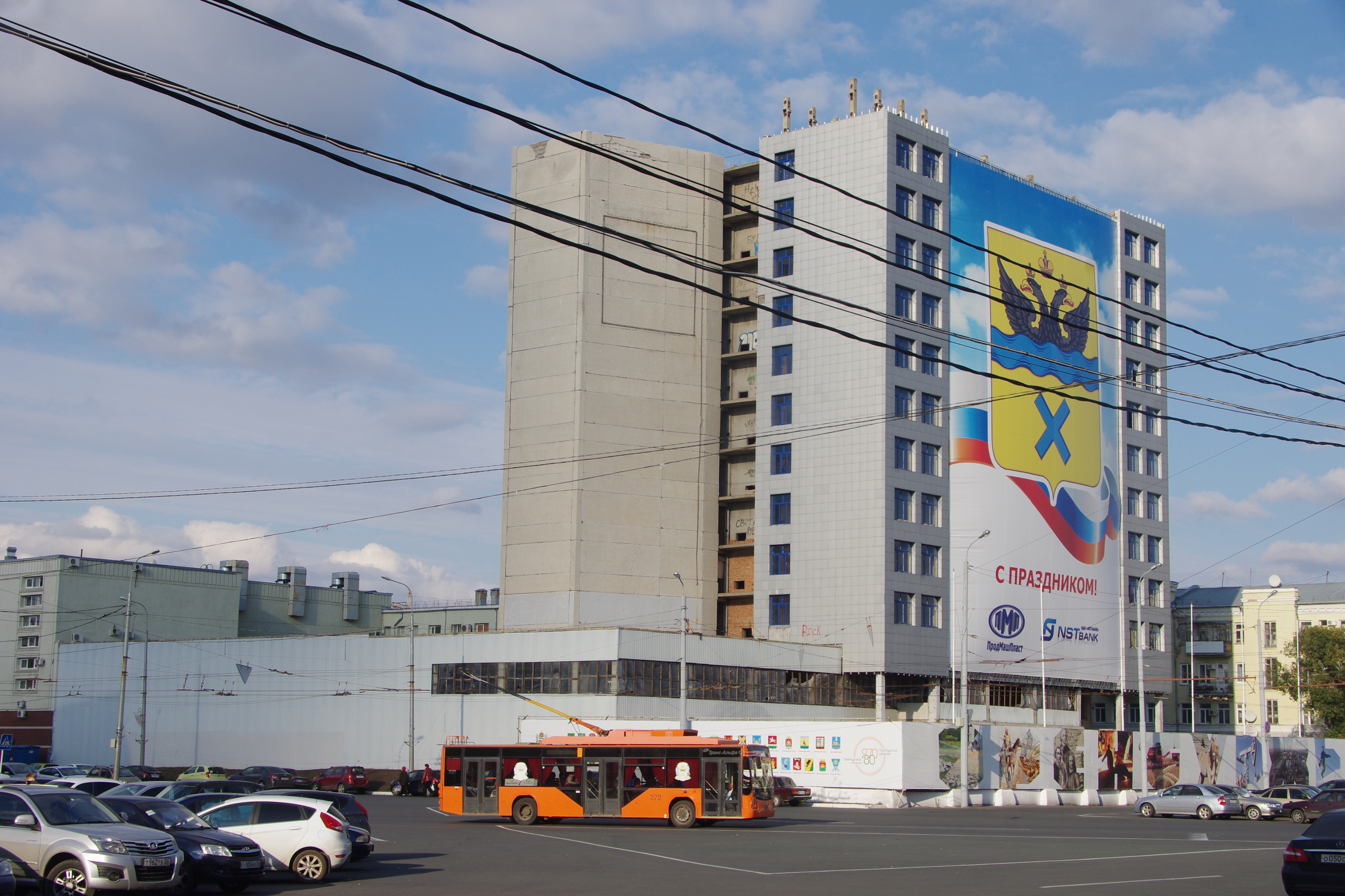 VMZ trolleybus in Orenburg centre